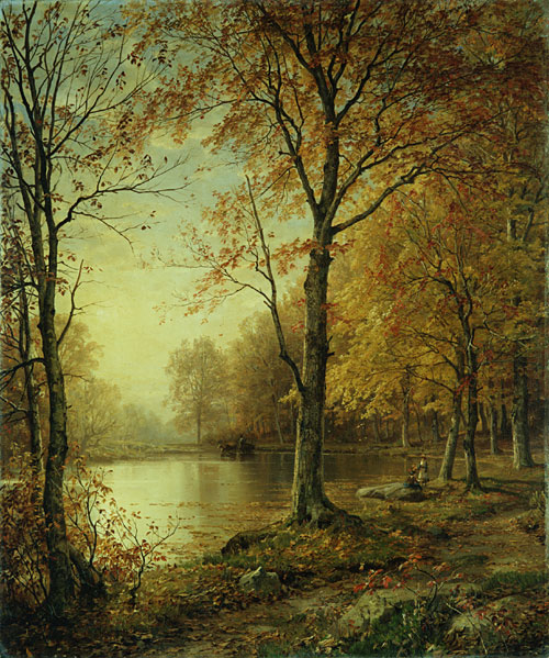 Indian Summer